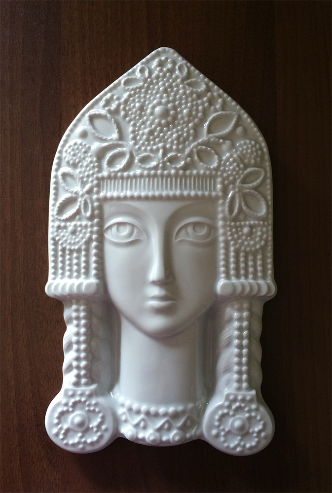 Porcelain of the soviet sculptor Bronislav Bystrushkin (1926-1977). Lomonosov's Porcelain Factory, Leningrad, USSR